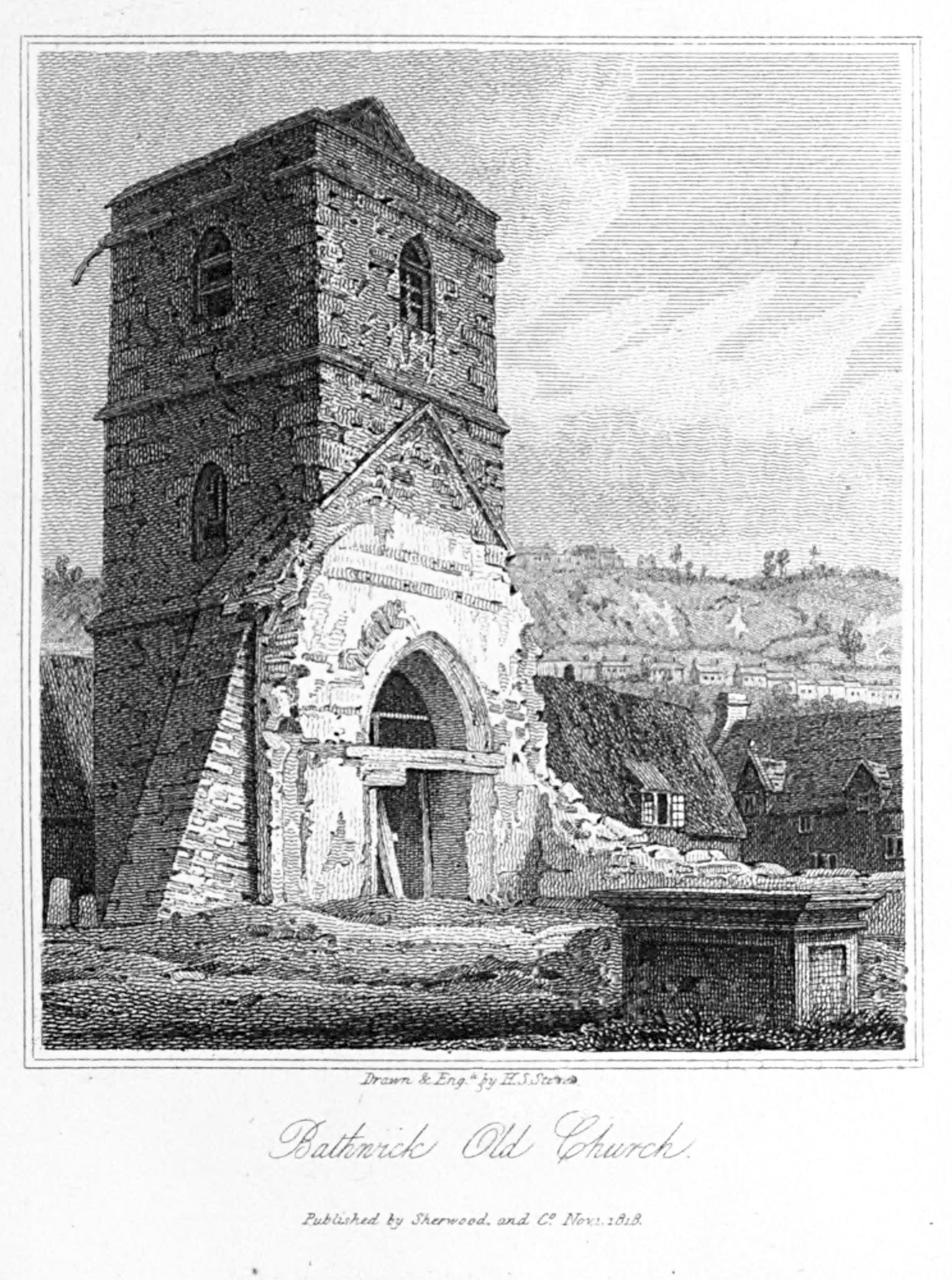 St Mary's Church, Bathwick, England pictured in an engraving by H. S. Storer from Pierce Egan's Walks through Bath (1819).